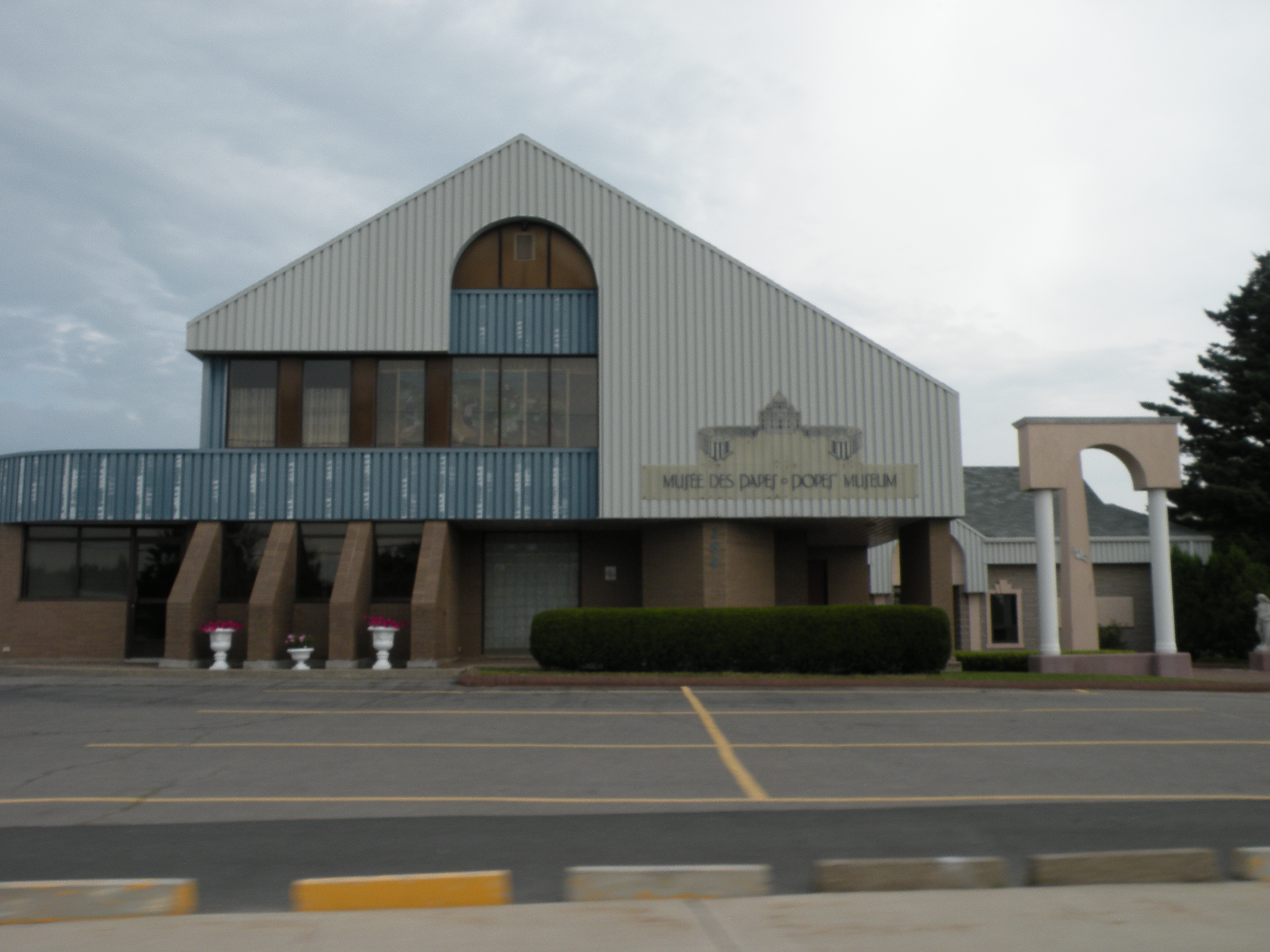 Popes' Museum in Grande-Anse, New Brunswick, Canada.